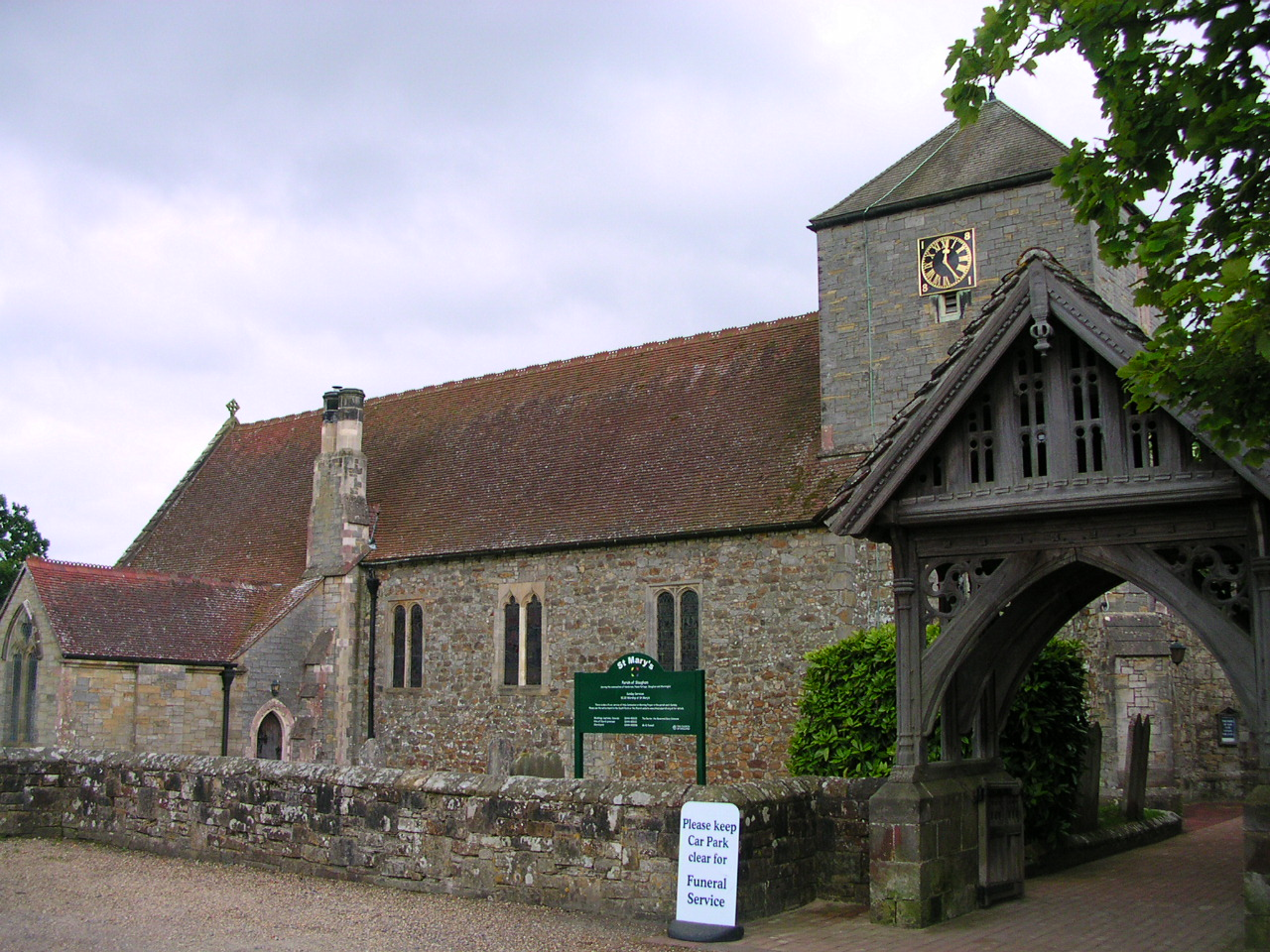 Slaugham Church, West Sussex, England.